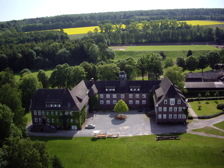 Foto of the lower house